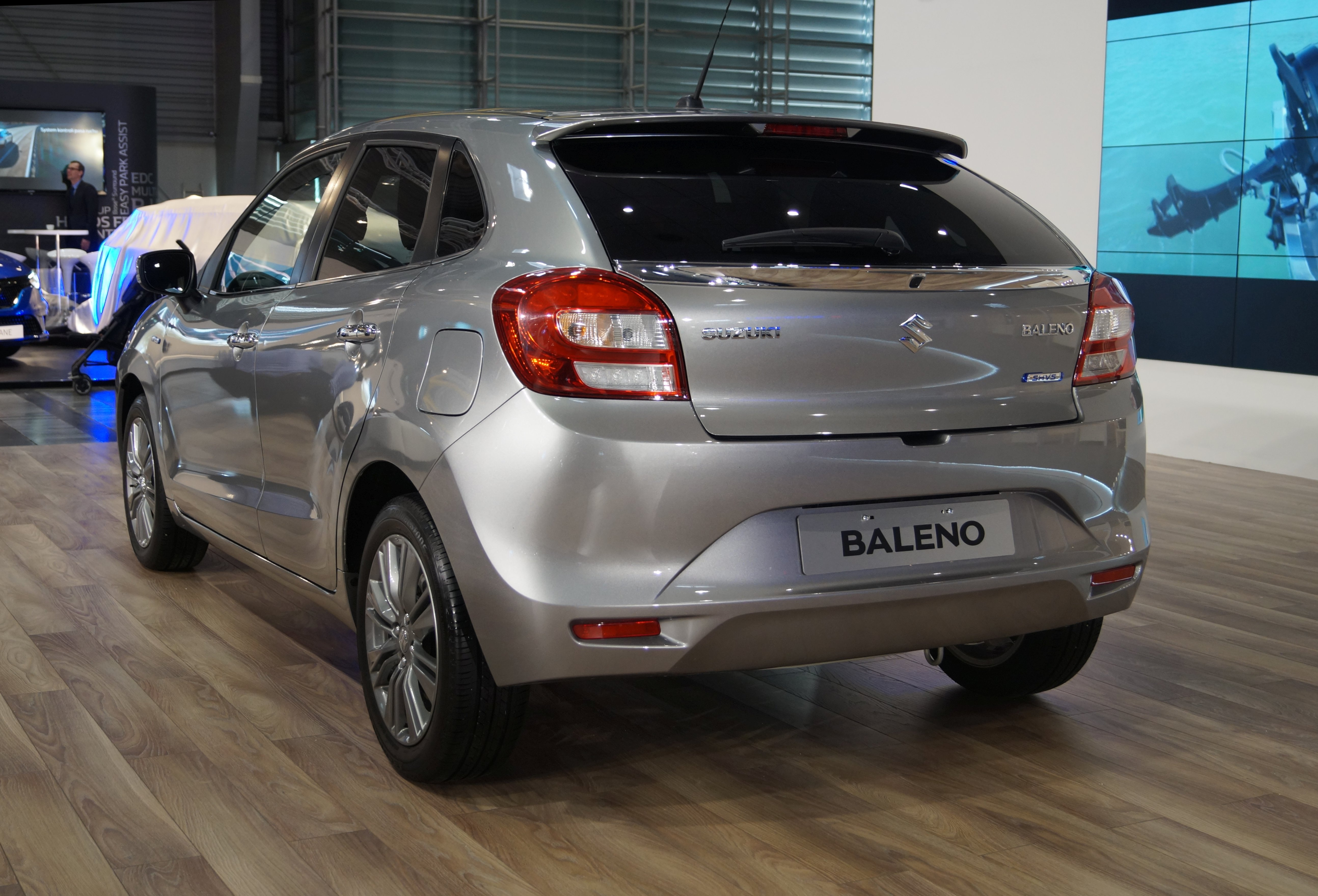 The making of this document was supported by Wikimedia Polska Association, within Wikigrant no. WG 2016-10. English | polski | +/− Tył Suzuki Baleno na Motor Show Poznań 2016